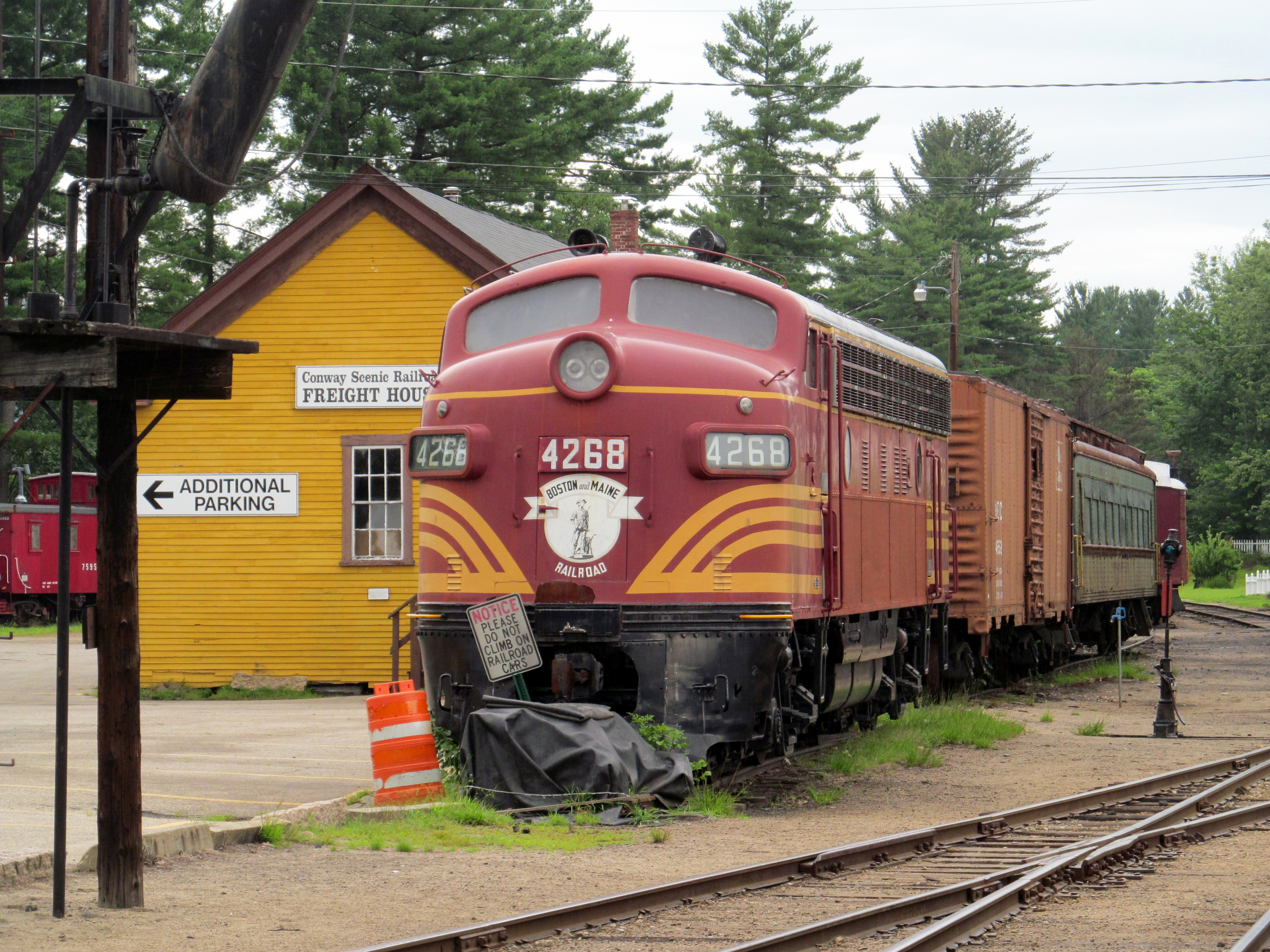 Ex-Boston and Maine F7A #4268 of the Conway Scenic Railroad at North Conway in 2013